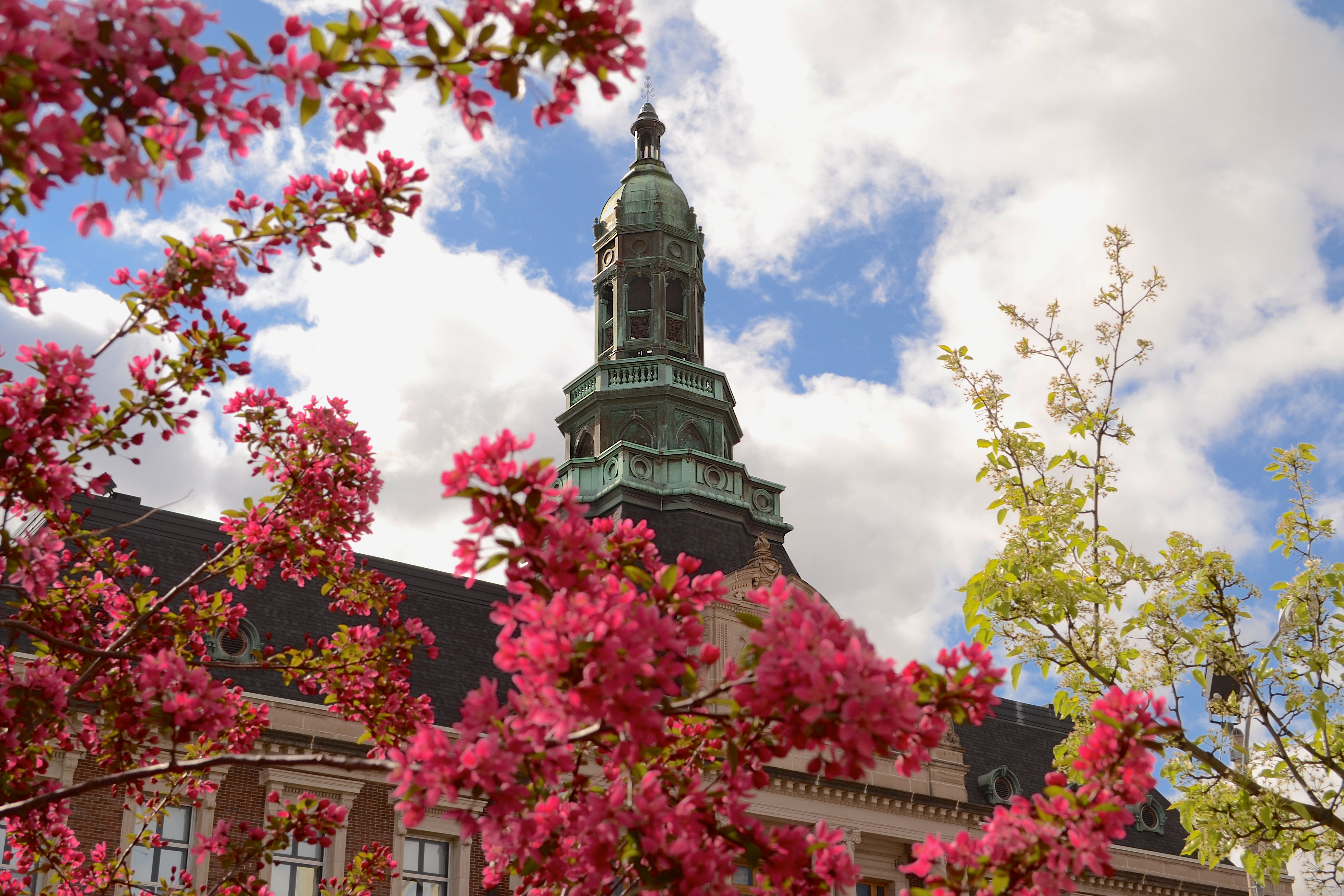 Courthouse